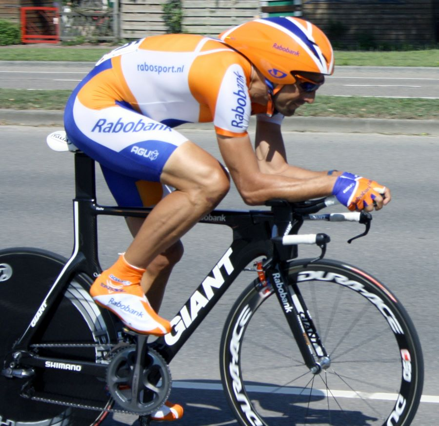 Juan Antonio Flecha at the 2009 Eneco Tour prologue